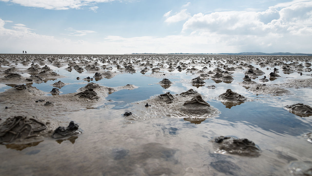 Lugworm